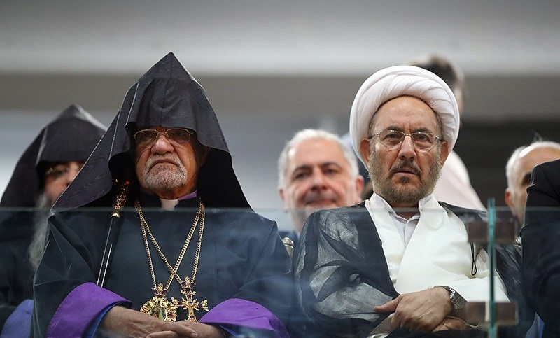 Opening ceremony of Pan-Armenian Games at the Ararat Stadium on 13 September 2016: Sebouh Sarkissian (aka Sepuh Sargsyan, Prelate of the Diocese of Tehran of the Armenian Apostolic Church, left) and Ali Younesi (Special Assistant to the President of Iran, right)